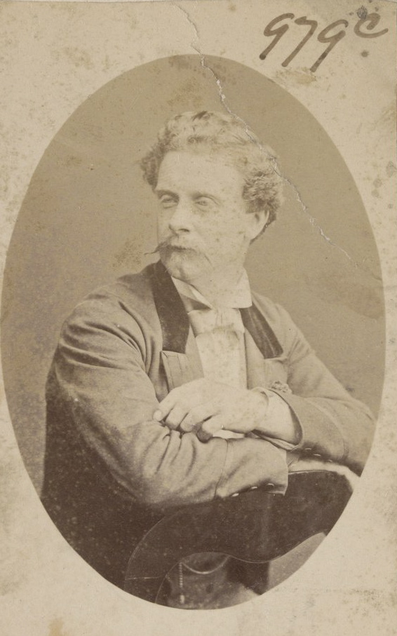 Original caption: Original Picture Collection location number: Env. 36, no. 51 & 52. Photographs pasted onto disbound album page. 2 vignette portrait photographs, carte de visite size, of the "Australian Blondin", otherwise known as Henri L'estrange. Shows him with moustache and wavy hair, and wearing bowtie and flower in lapel.